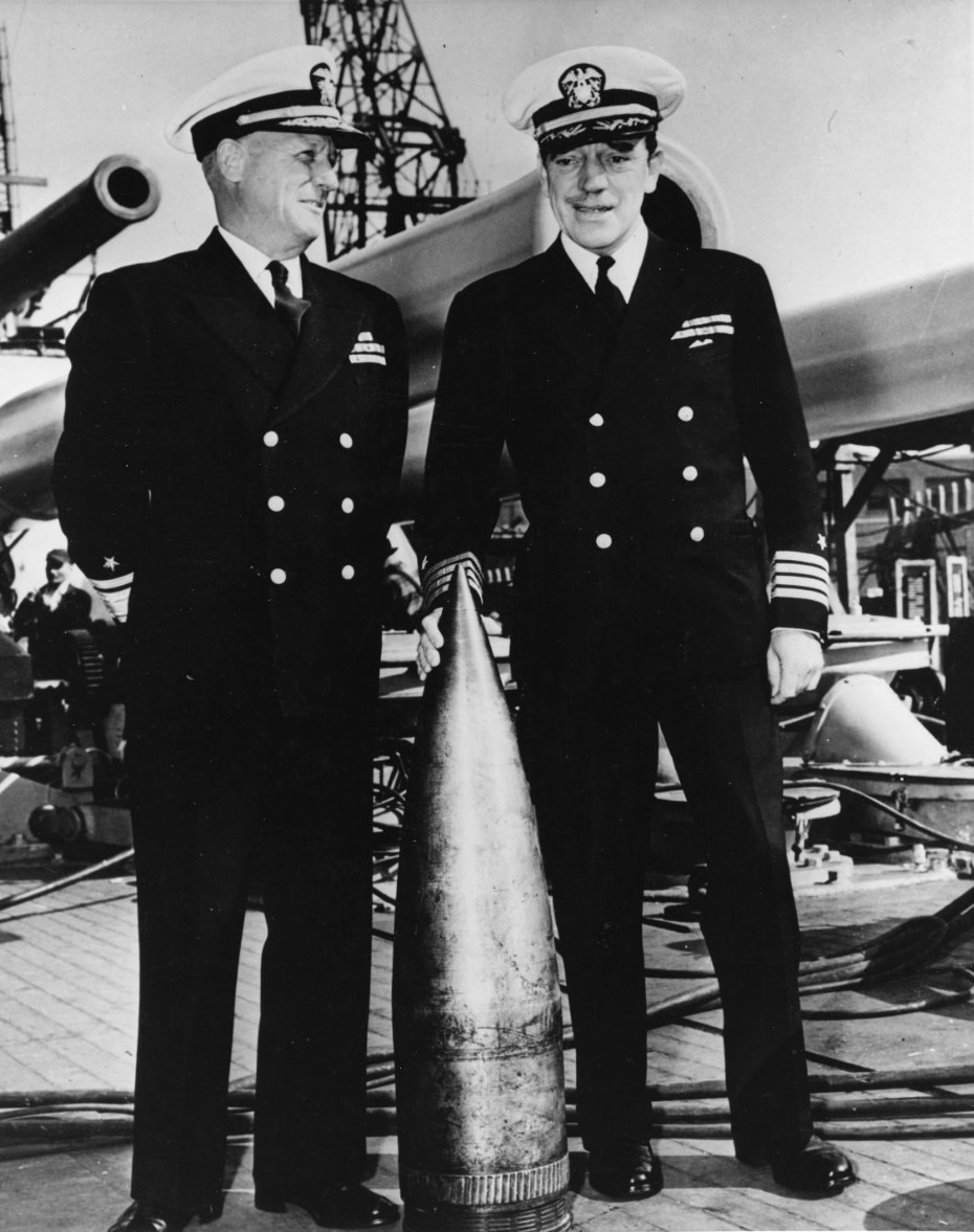 Rear Admiral Carleton F. Bryant, USN (left) and Captain Charles A. Baker, USN, Commanding Officer, USS Texas (BB-35) On board Texas with a German 240mm (9.4) dud shell that hit the ship during the bombardment of Battery Hamburg, east of Cherbourg, France, on 25 June 1944. Photographed while Texas was undergoing overhaul at the New York Navy Yard on 12 October 1944.